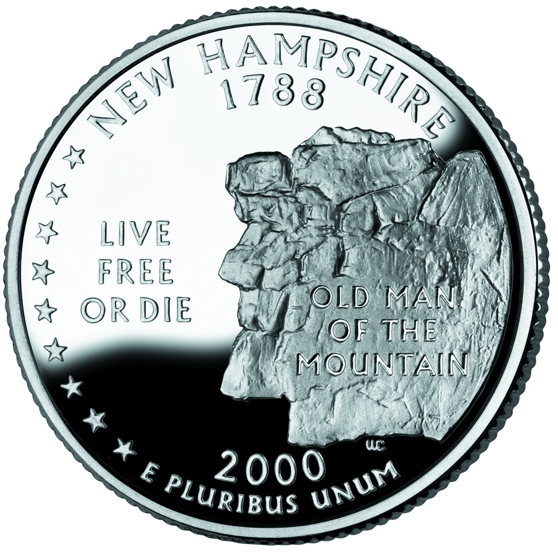 The reverse side of the New Hampshire State Quarter. It is a "proof".